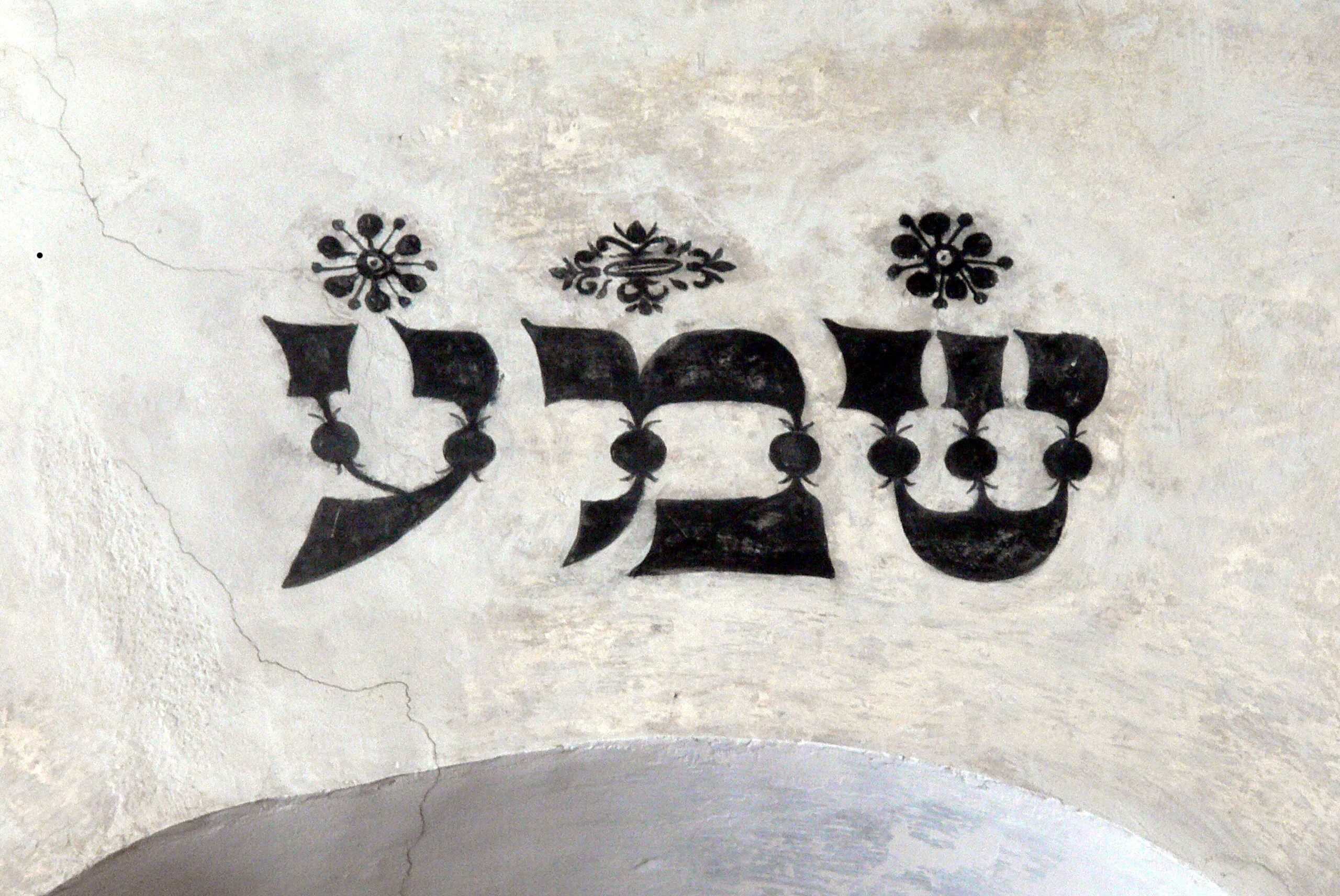 Třebíč ( Czech Republic ). New Synagogue: Fresco ( 1707 ) - Hebrew inscription.